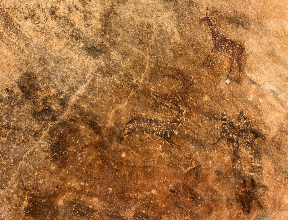 Coves del Cogul: Pintura ruepstre de Parella de dones amb bocs i cérvola